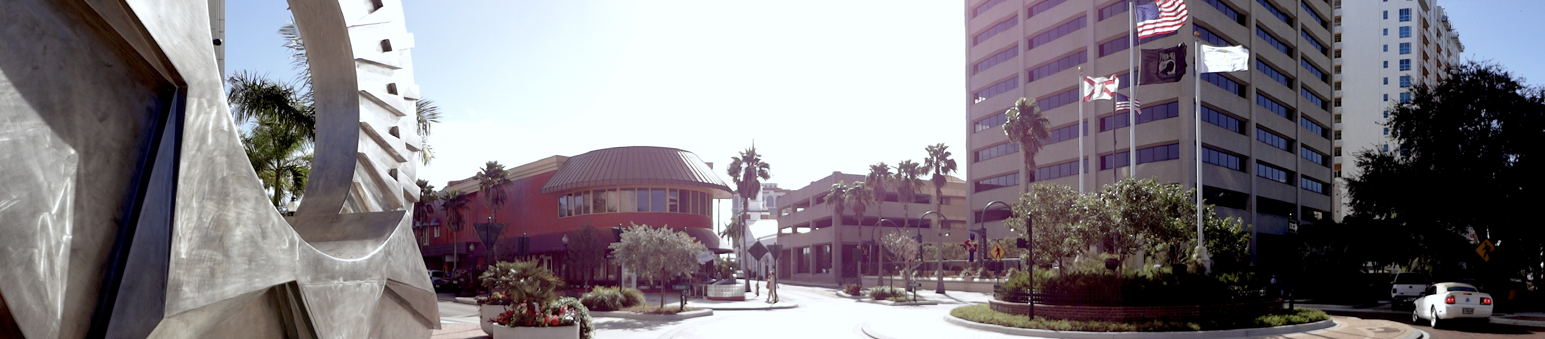 Panorama of the Five Points Roundabout in Sarasota, Florida